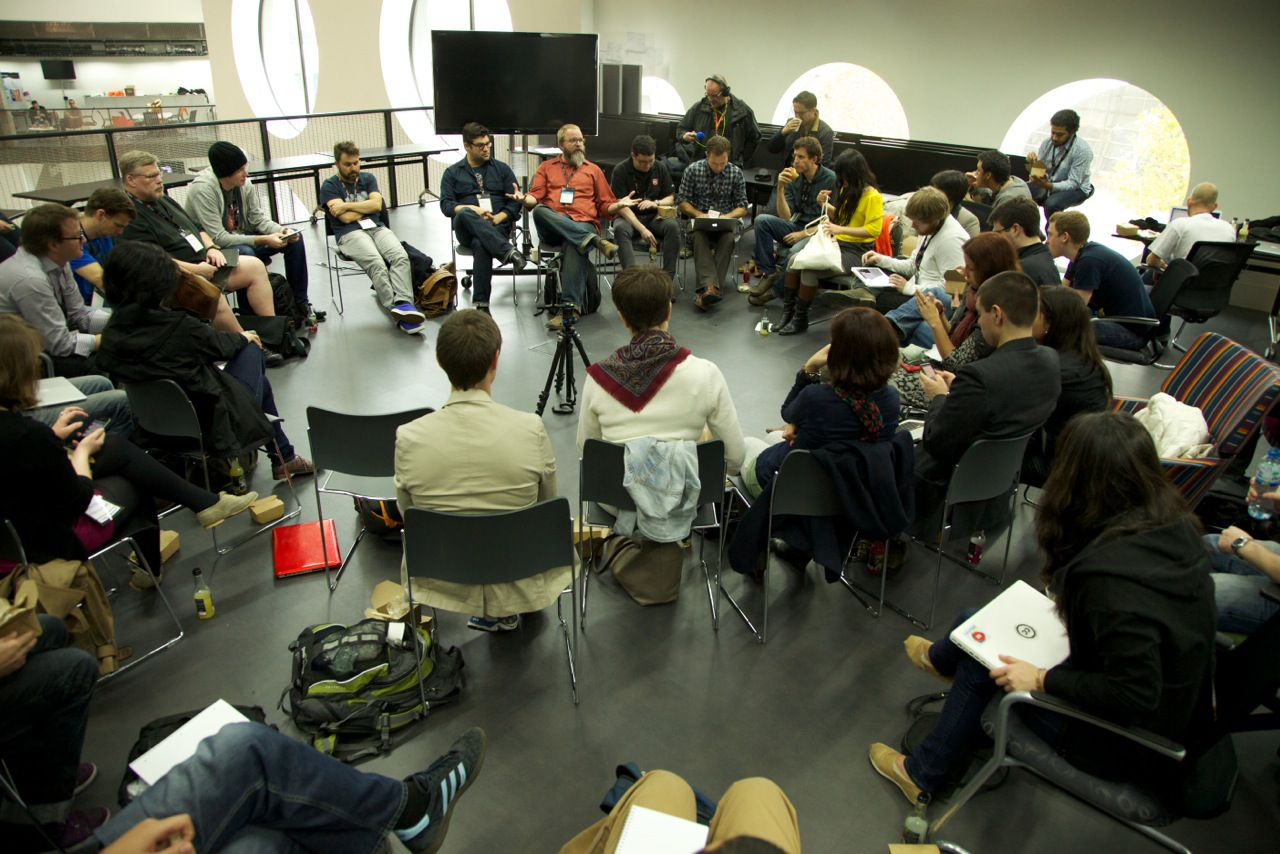 Knight VP Michael Maness and Knight-Mozilla News Technology Partnership lead Dan Sinker talk about the future of the Knight-Mozilla project and the Knight News Challenge at a fireside chat at the Mozilla Festival. Credit: Jon Vidar